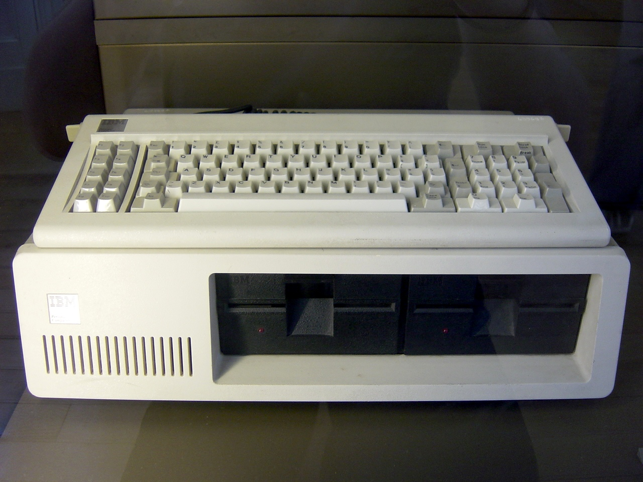 The original IBM PC (IBM 5150).